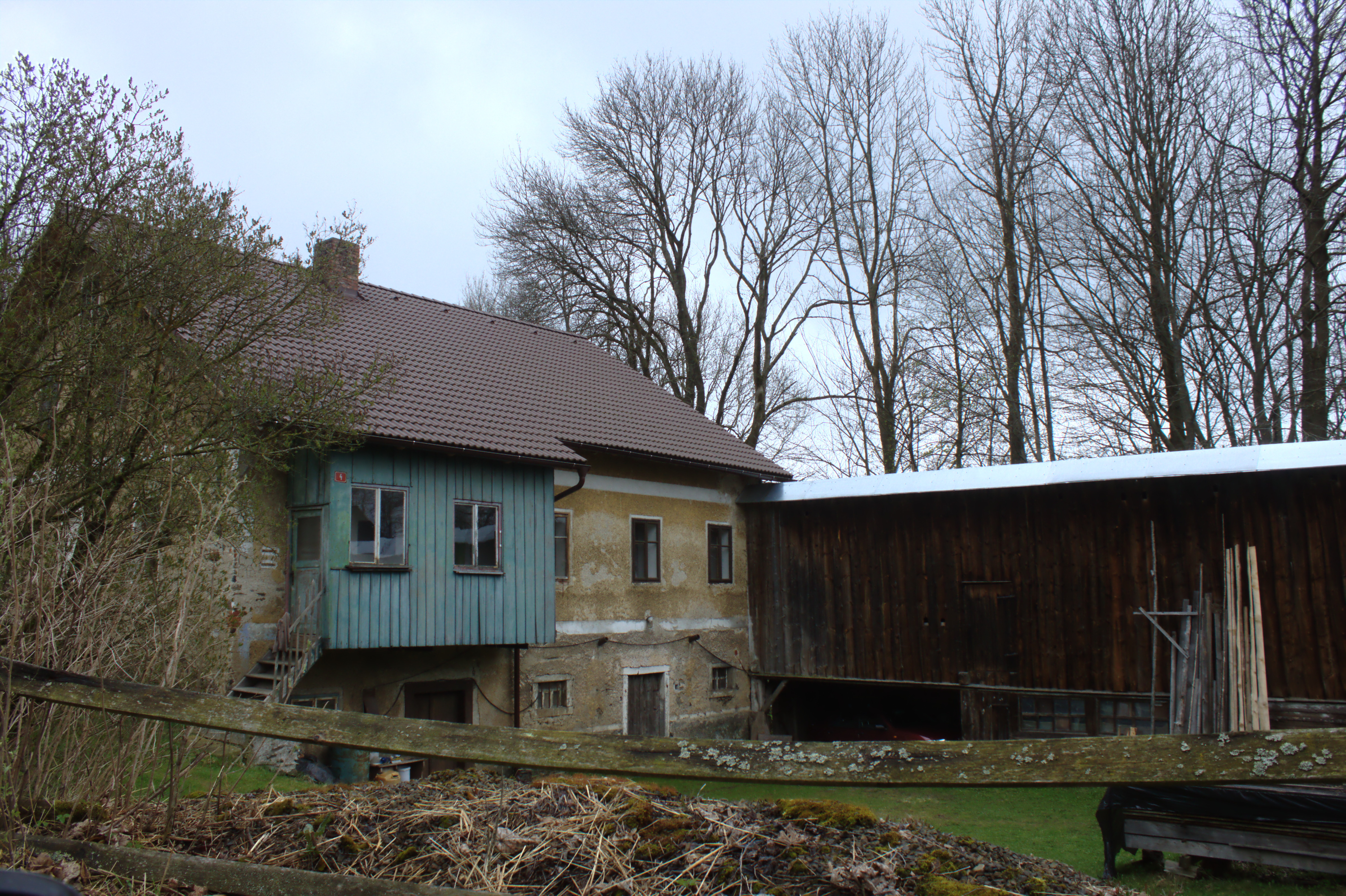 Buildings in Předvojovice, Plzeň Region, CZ